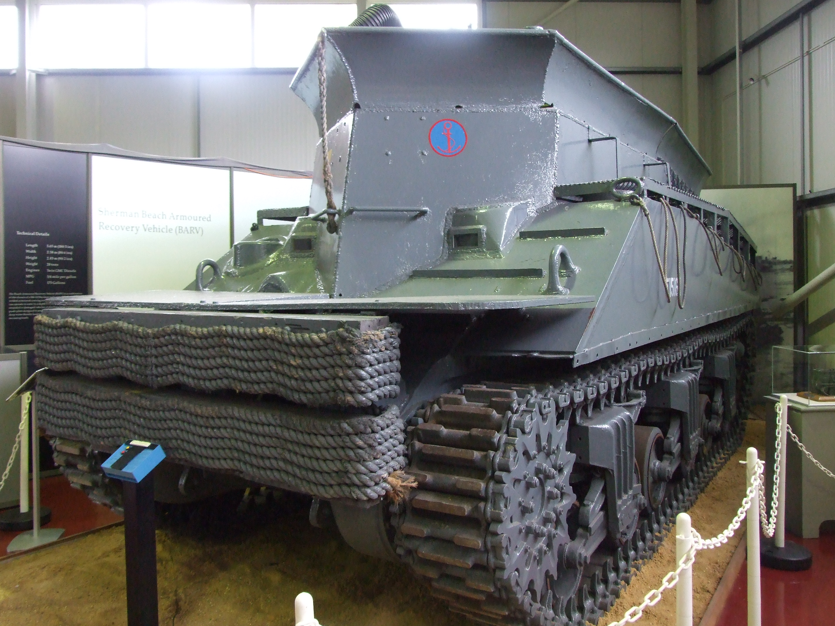 Beach Armoured Recovery Vehicle (BARV), a British military support vehicle used for amphibious landings, on display at the REME Museum of Technology.